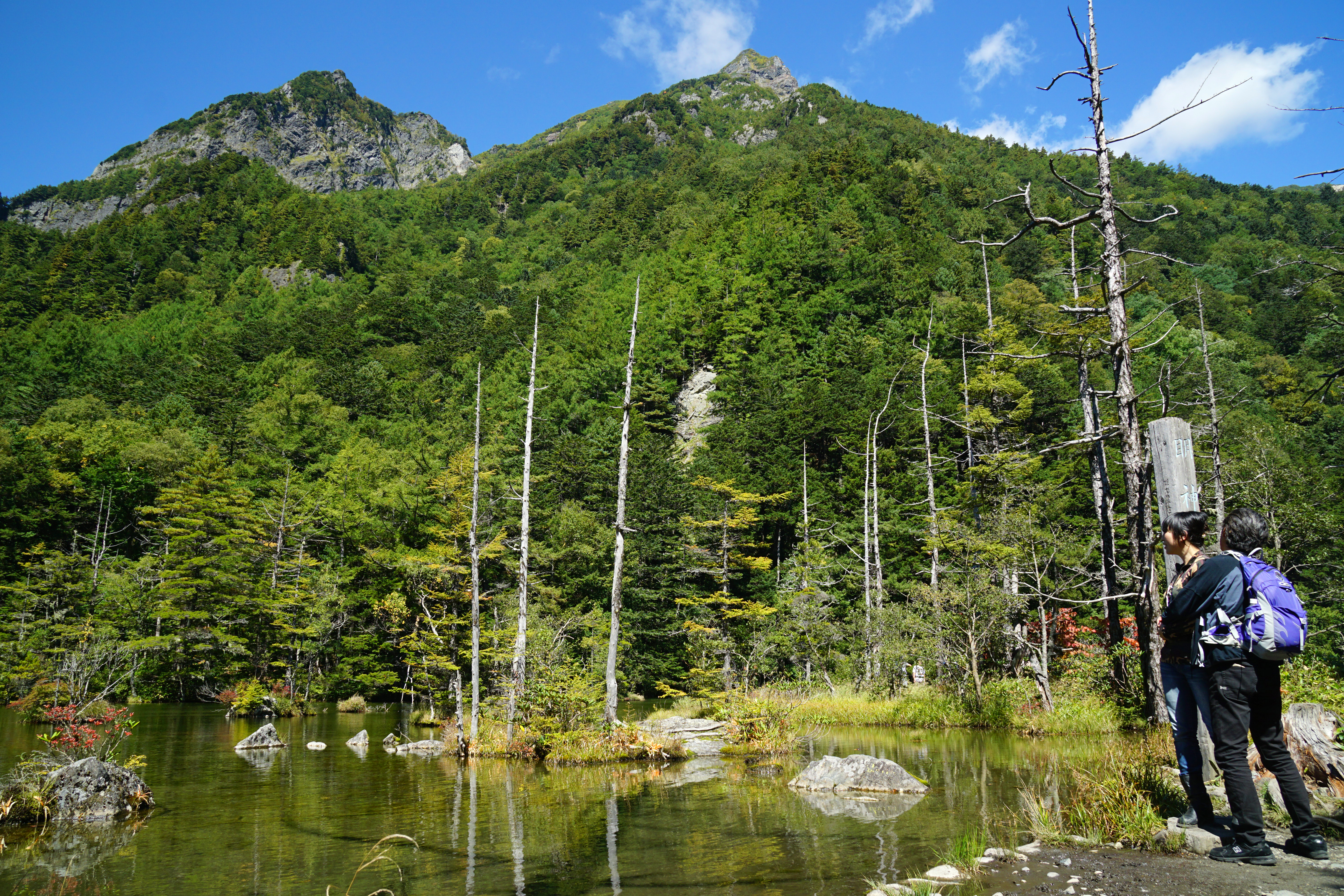 Mount Myojin and Myojin Pond at Kamikochi, Matsumoto, Nagano prefecture, Japan